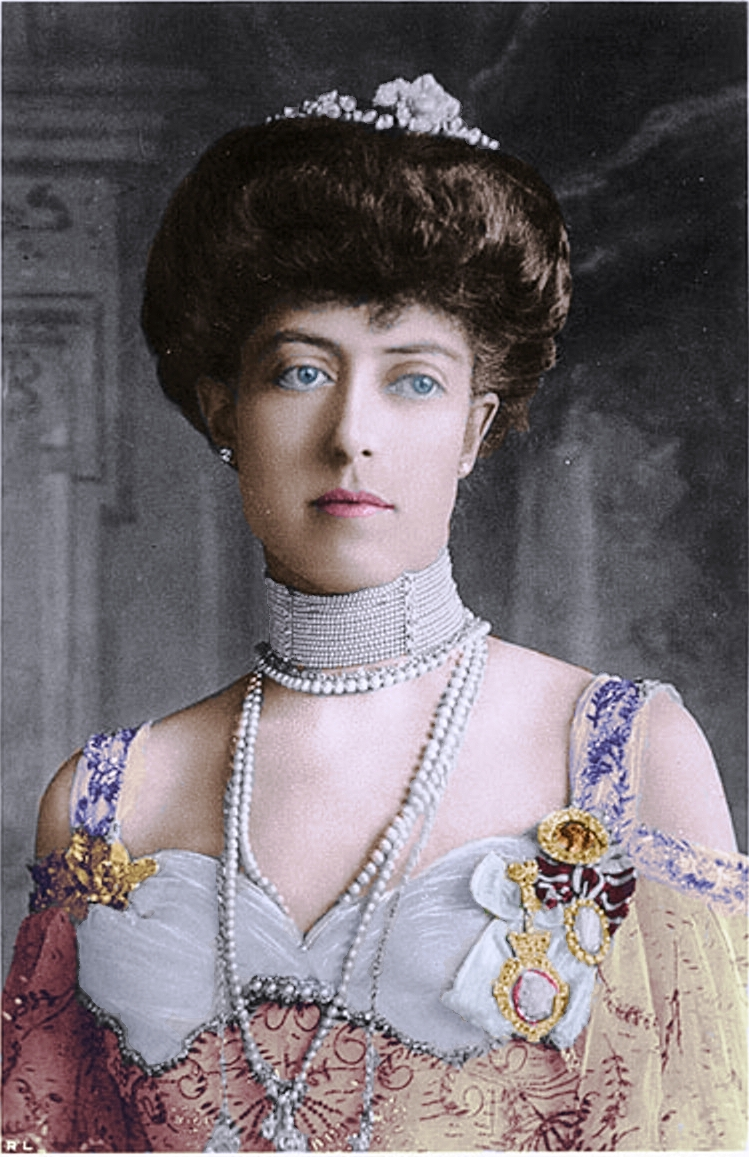 Princess Victoria Alexandra of the United Kingdom (about) coloured from black and white